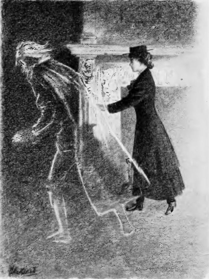 derived image from The Canterville Ghost — frontispiece of the book